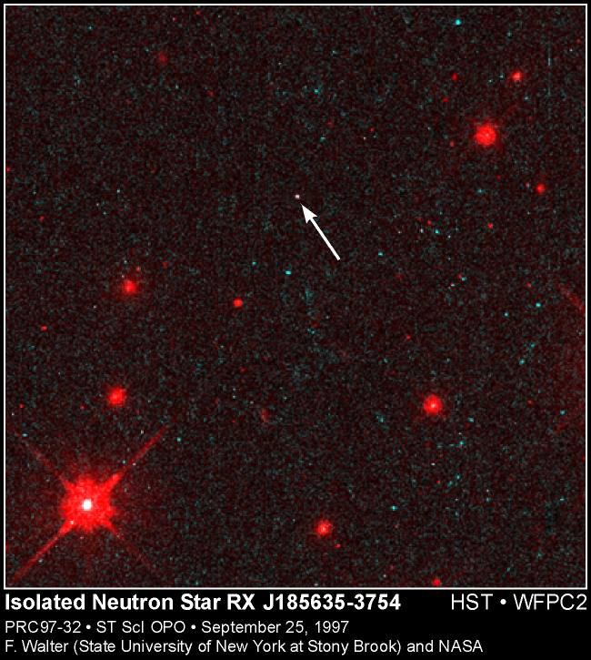 The first direct observation of a neutron star in visible light. The neutron star being RX J185635-3754. Credit: Fred Walter (State University of New York at Stony Brook) and NASA. Source: ST Scl. neutron stars are really small and can't be seen by the eye